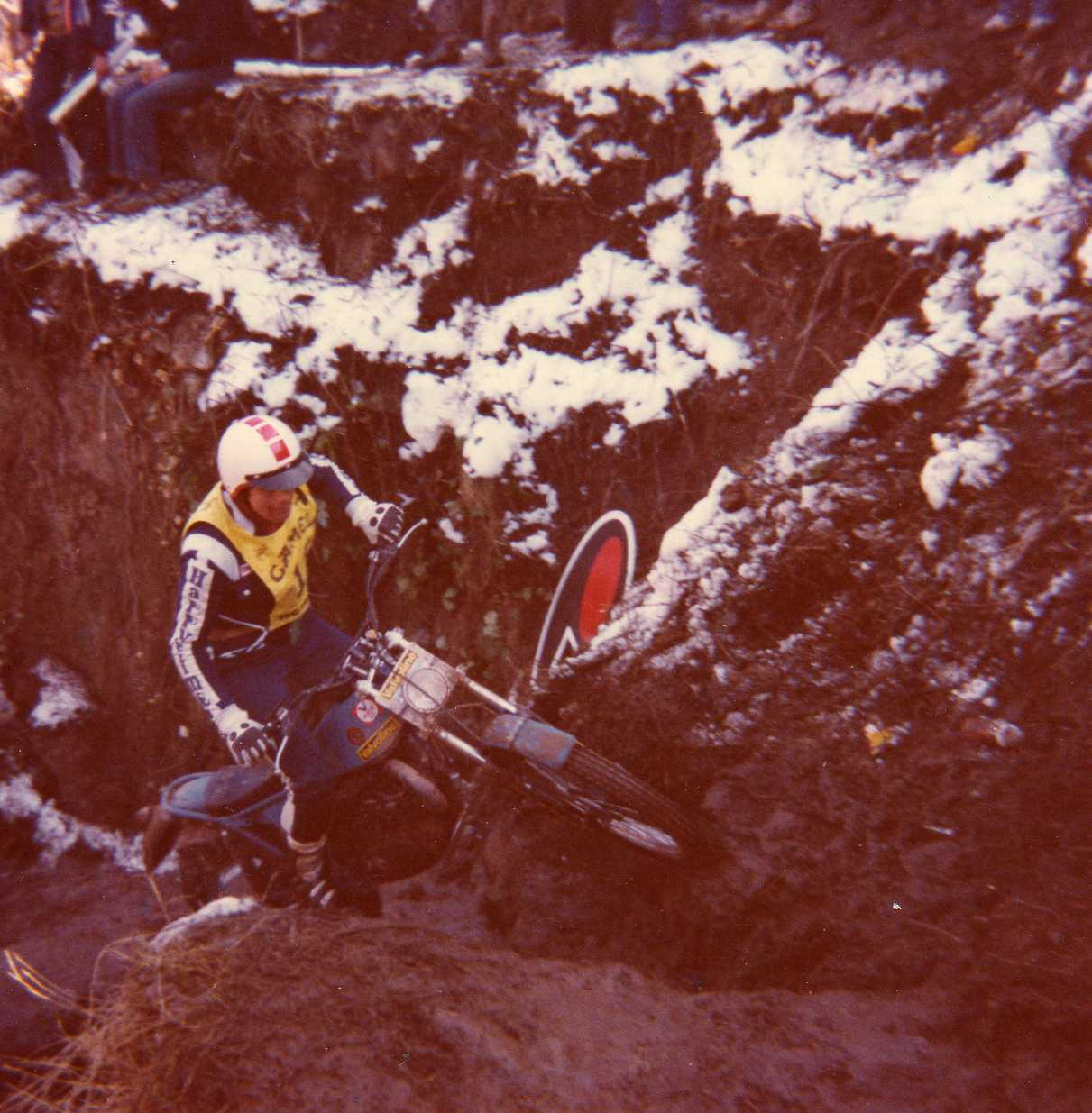 Joe Wallman riding his Bultaco Sherpa T at XV "Trial de Sant Llorenç" in Mura (Catalonia) on February 22, 1981. It was the first race of the Trial World Championship. He finished 18th.